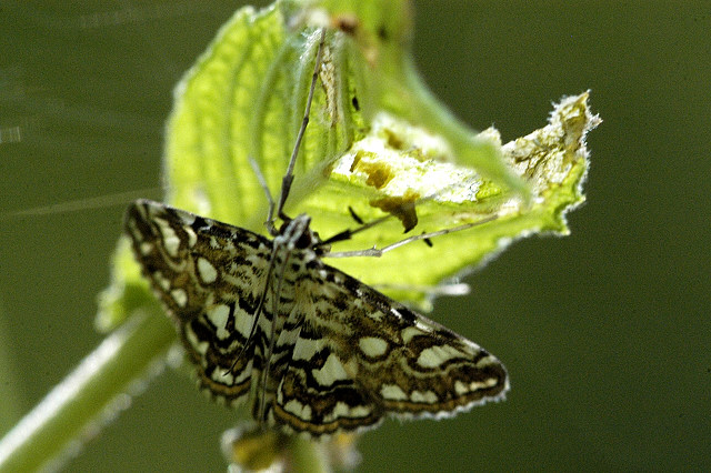 Picture taken in Commanster, Belgian High Ardennes . Species: Elophila nymphaeata